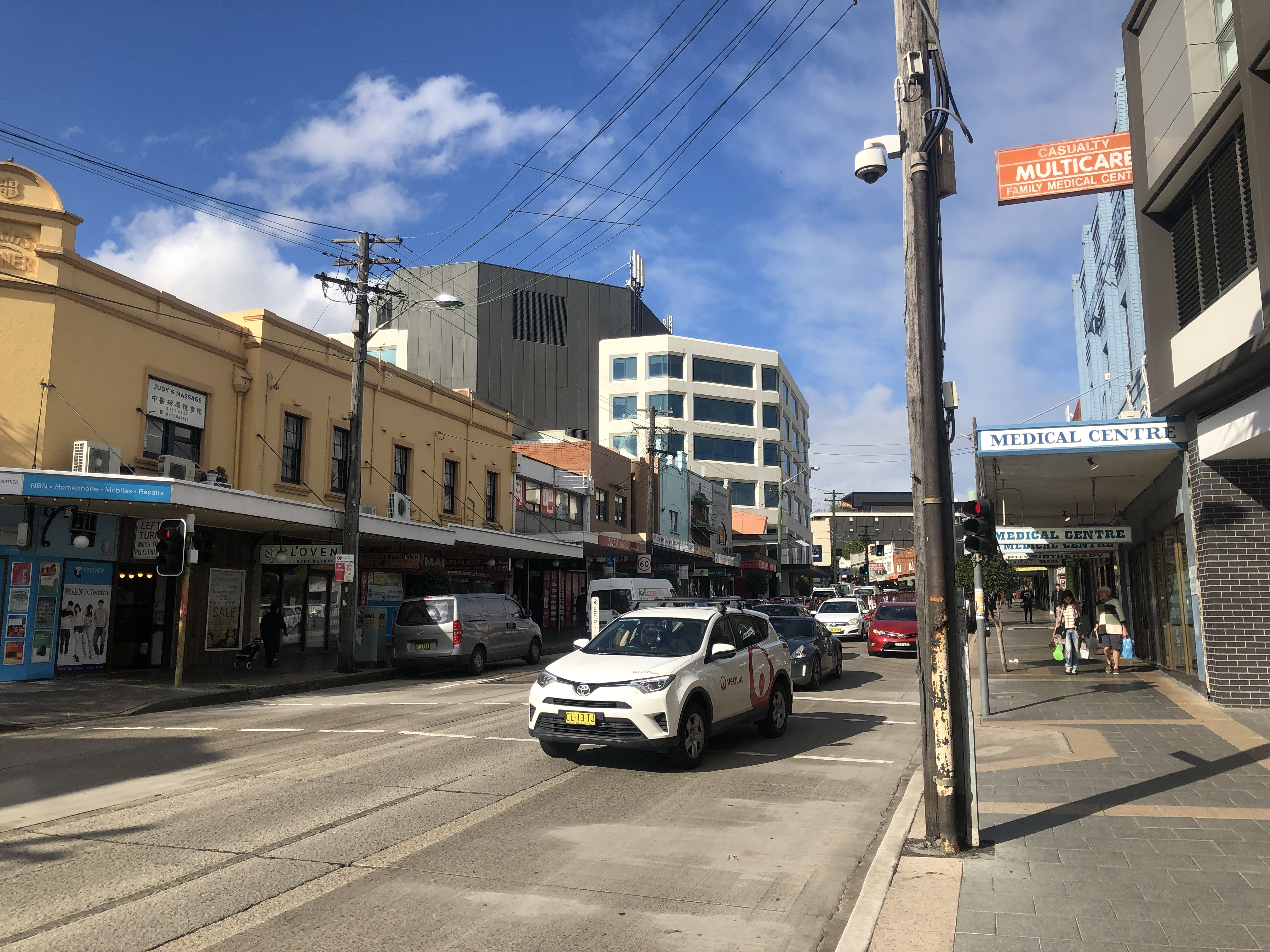 View on Liverpool Road, Ashfield's major commercial district